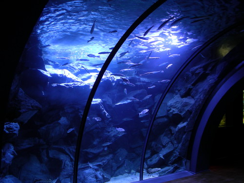 Mauro Mariani, Bath Bridge Civic Aquarium of Milan.